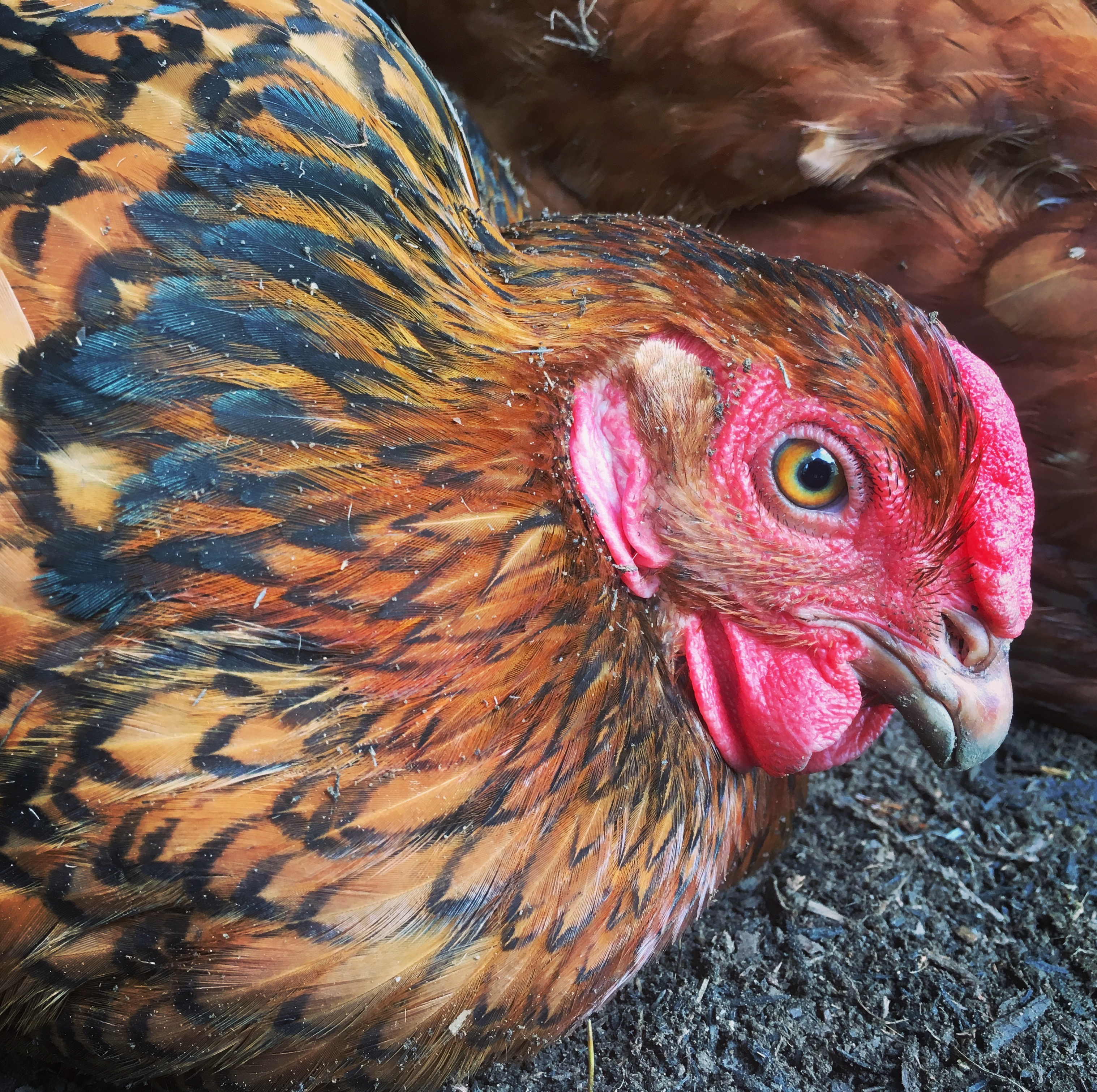 A photograph of a Golden Laced Wyandotte hen, approximately a year old. Its black feathers shimmer to an almost blue in the light of the sun.